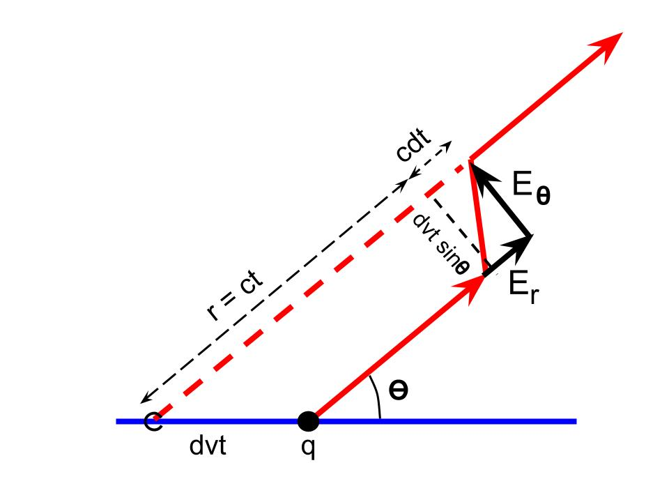 Broken electric field line due to accelerated charge